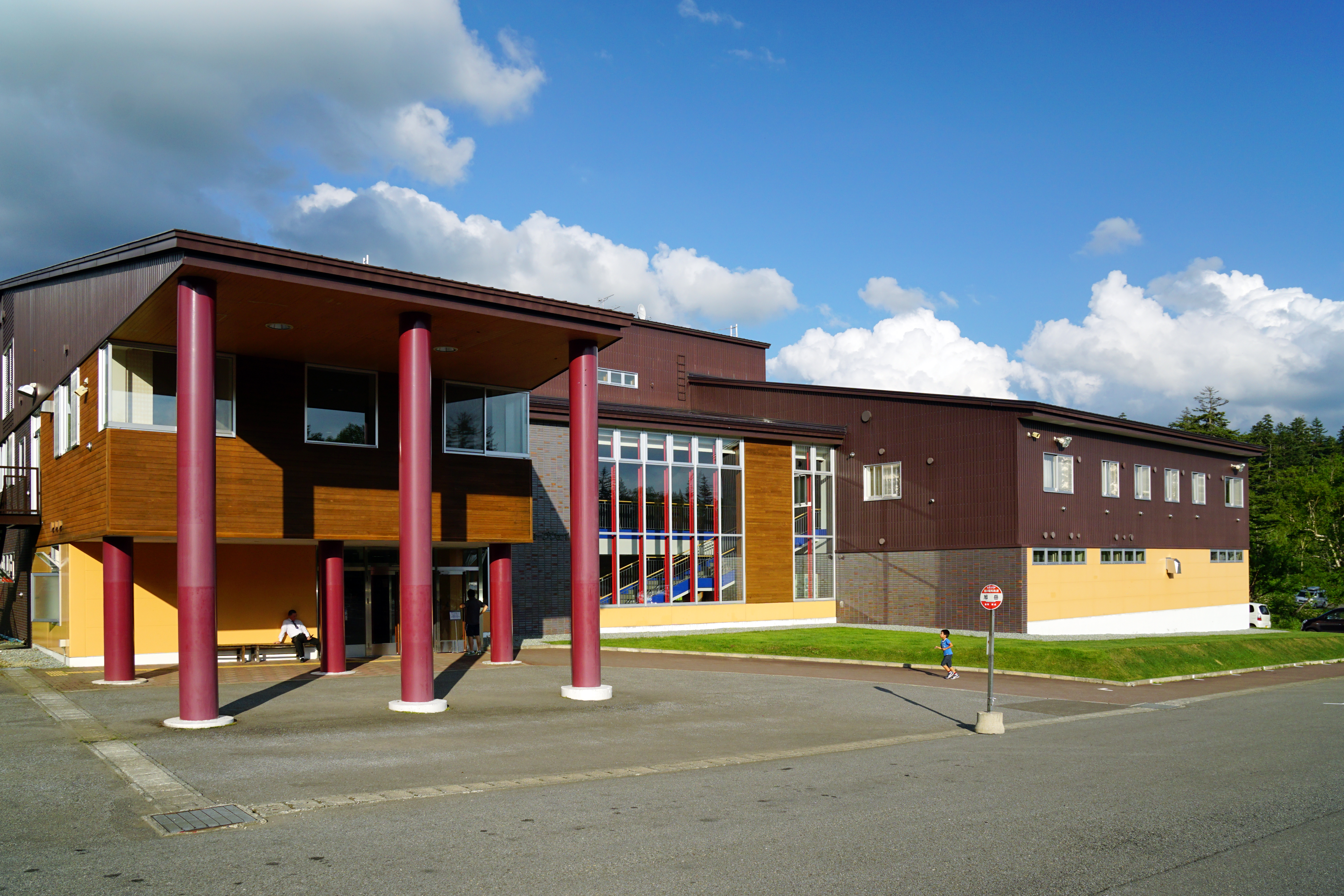 Asahidake_Ropeway at Higashikawa, Hokkaido, Japan.